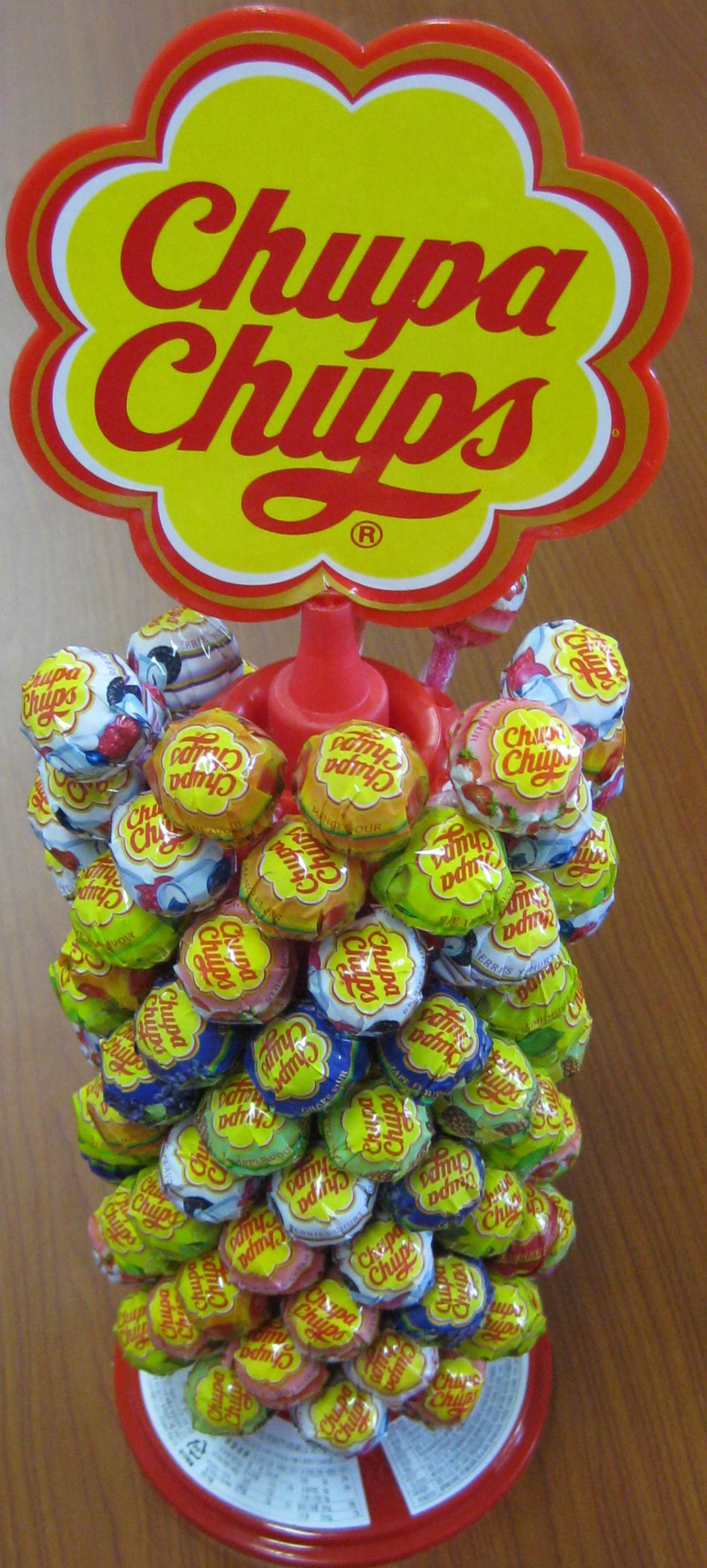 Chupa Chups for White Day